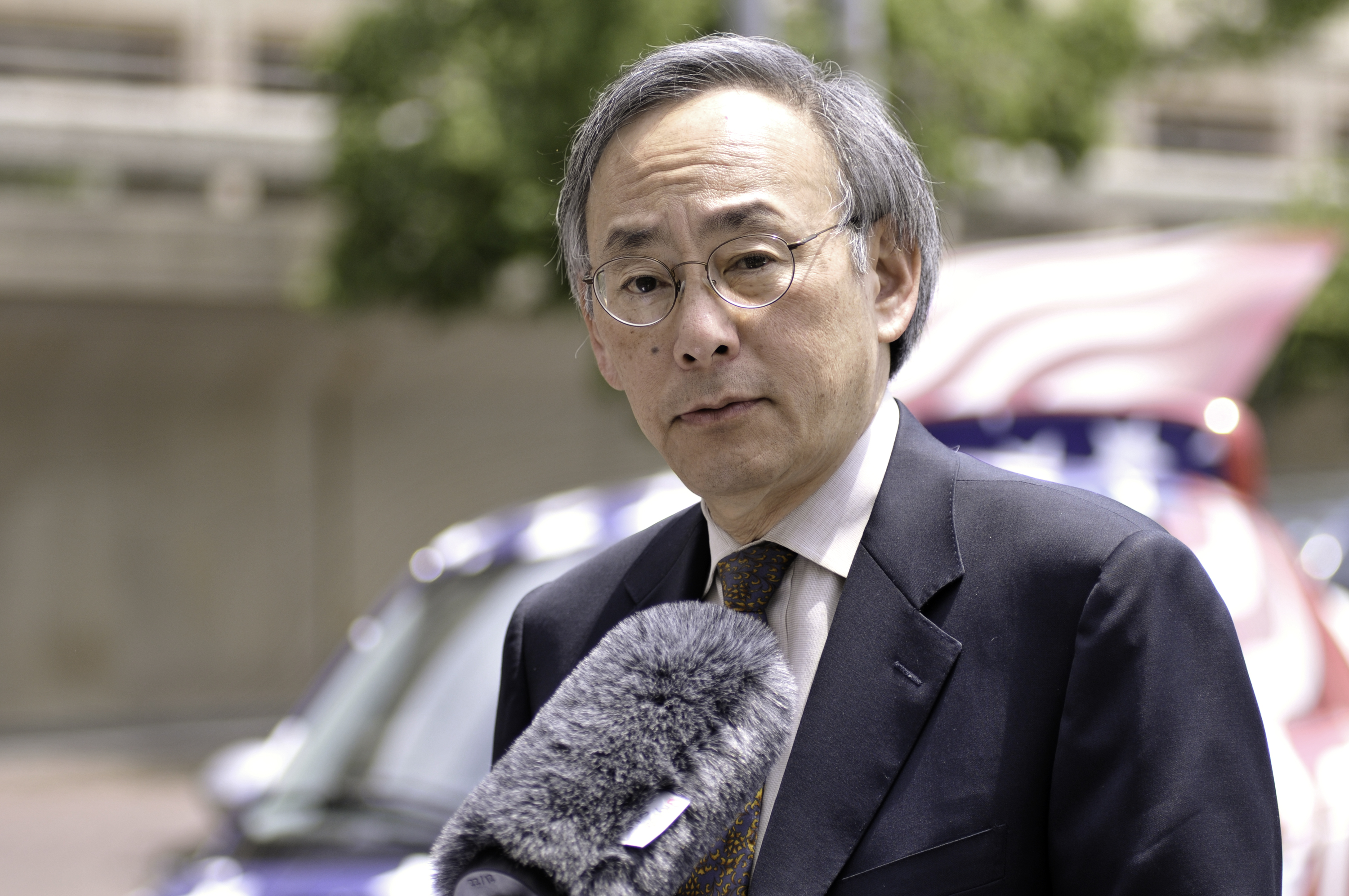 Sec. Steven Chu, US Department of Energy speaks at a Clean Fleets event held at the Department of Energy. | Energy Department Image | Photo by Charles Watkins, Contractor | Public Domain